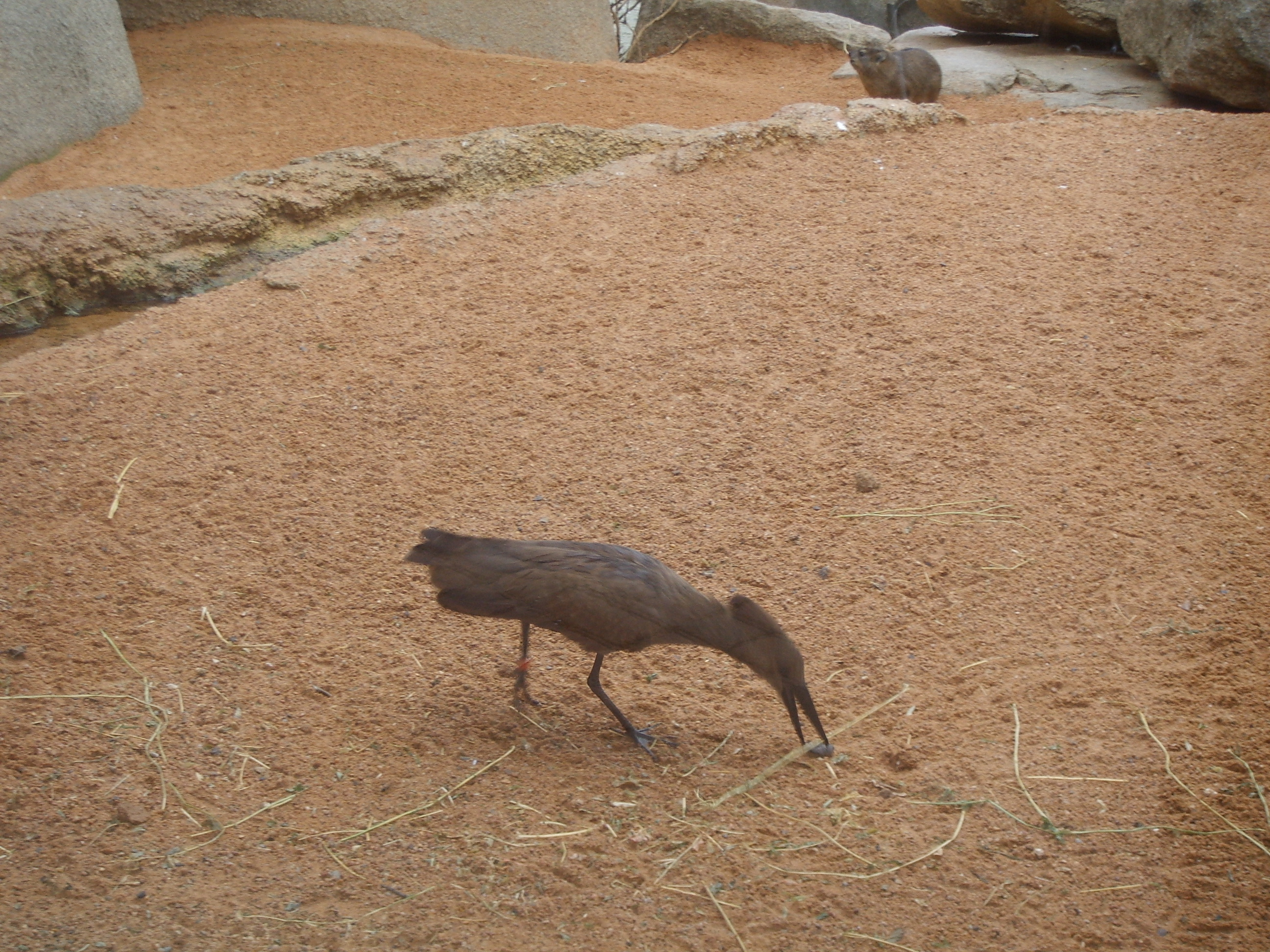 Scopus umbretta looking for food and a Hyrax